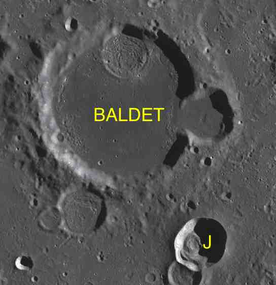 Part of the chart LAC-133 used for the presentation